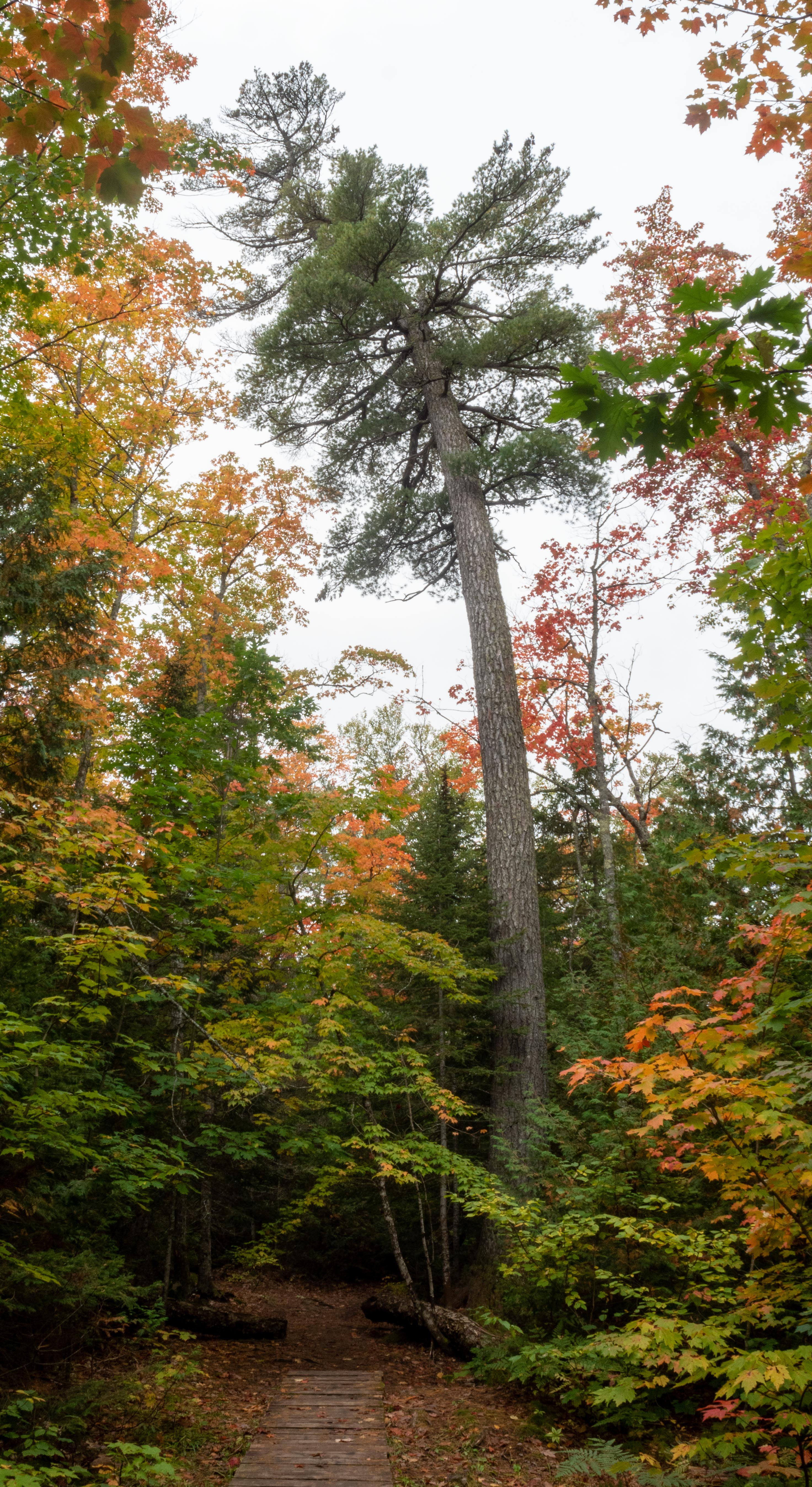 Big white pine (Pinus strobus) in the Estivant Pines Sanctuary. The apparent curve in the stem is real and not an artifact of the lens used. It is typical of many trees in the Sanctuary.